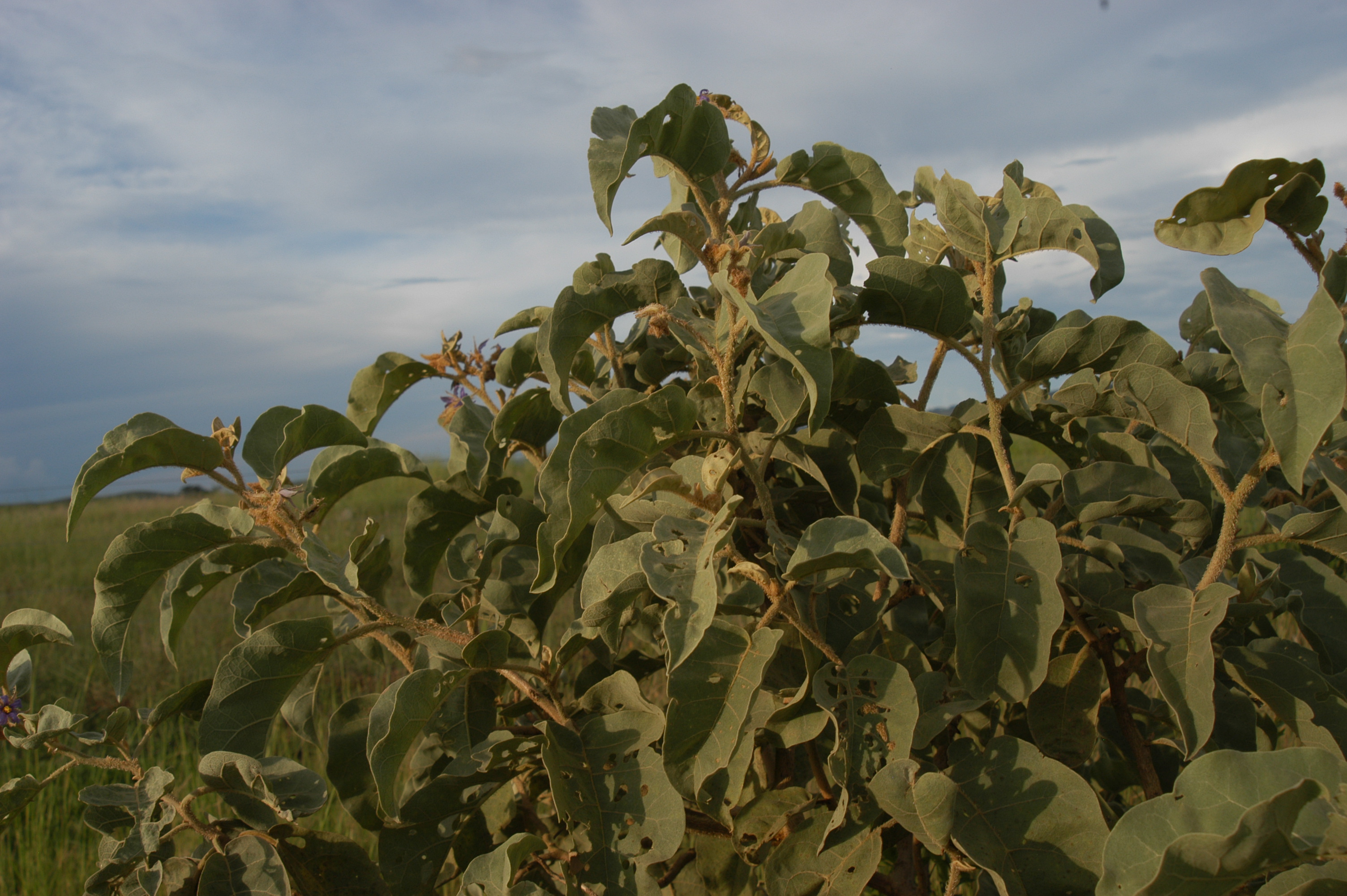 a picture i took in a nearby countryside of Brasília